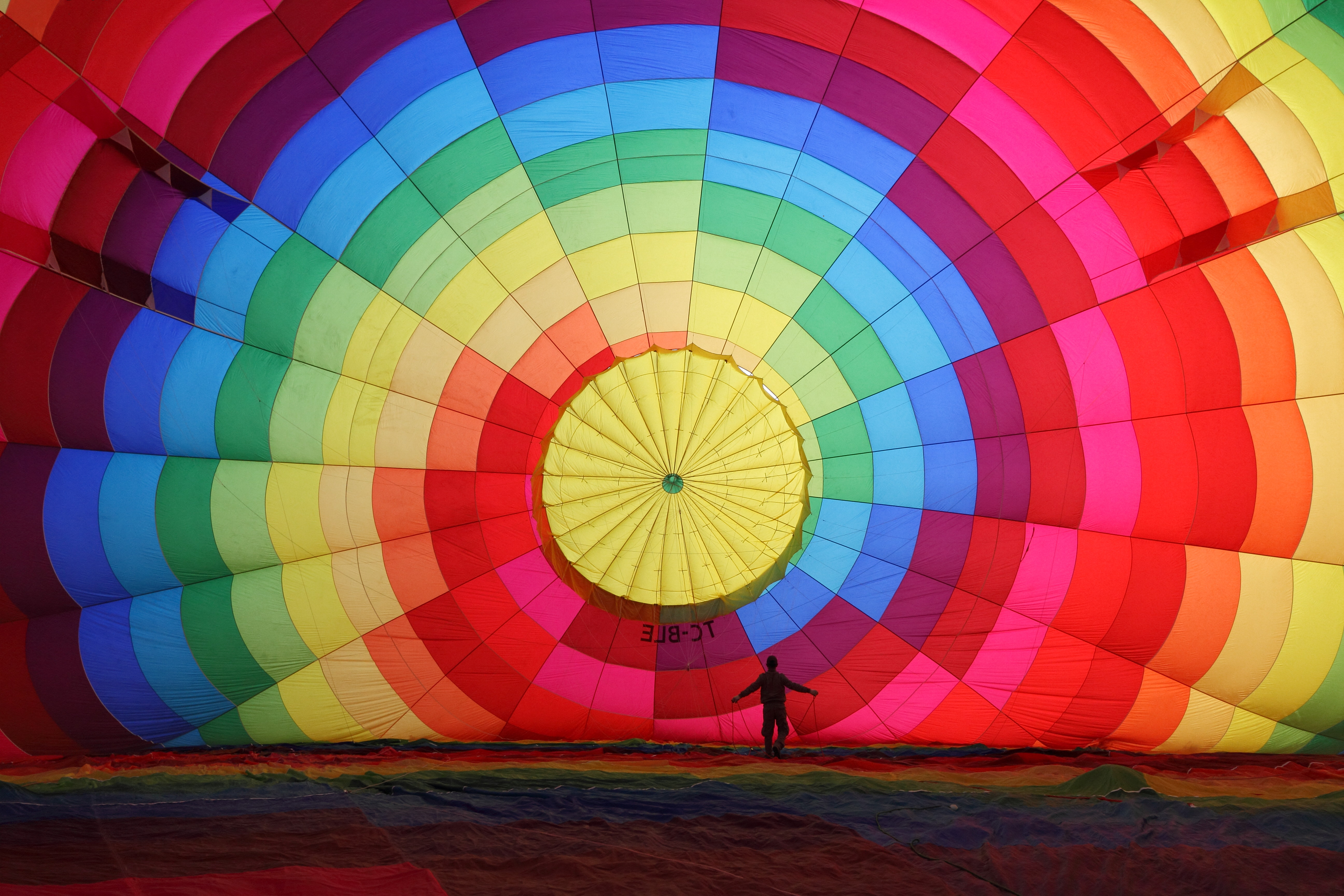 A hot air balloon being inflated before air trip over Cappadocia, central Turkey, as seen from inside.